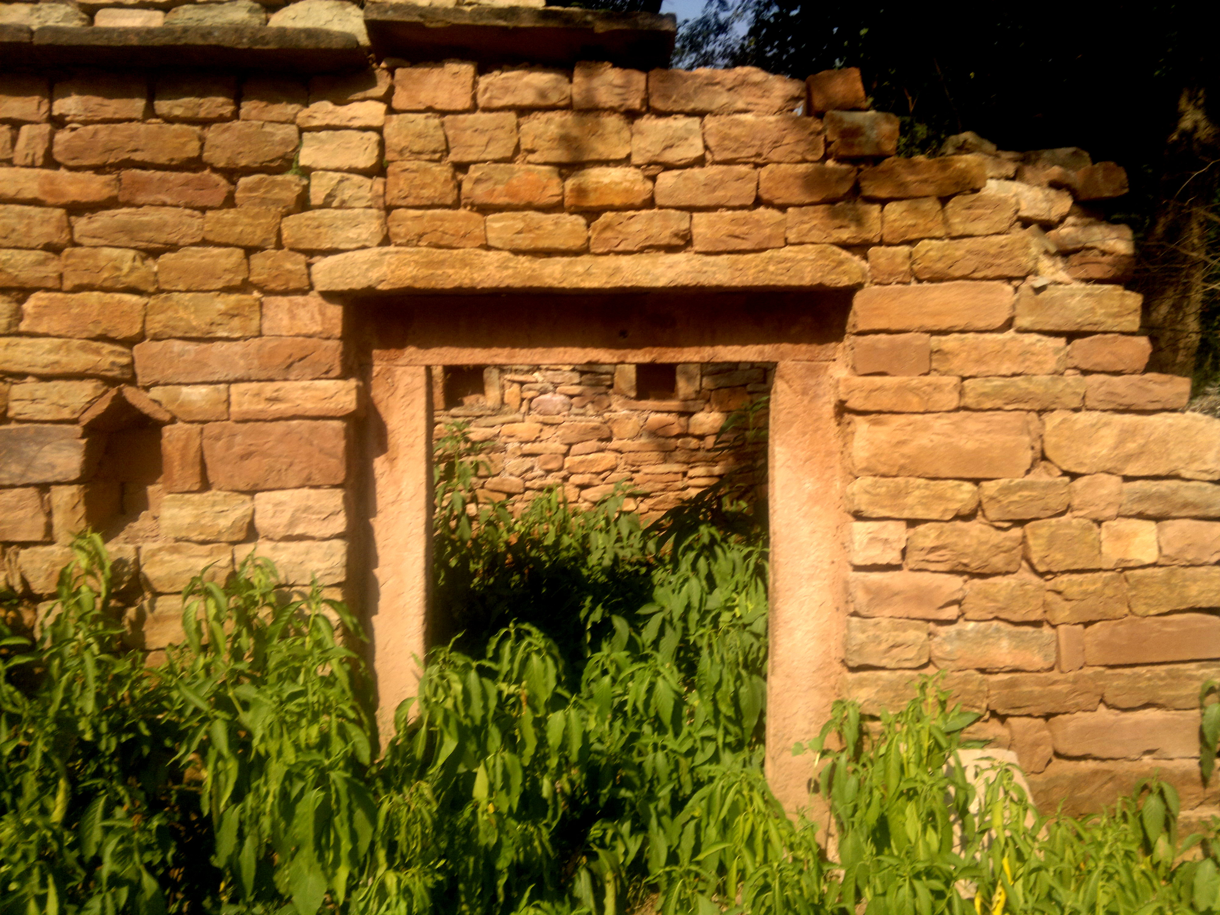 Ruins of Nandana This is a photo of a monument in Pakistan identified as the PB-35